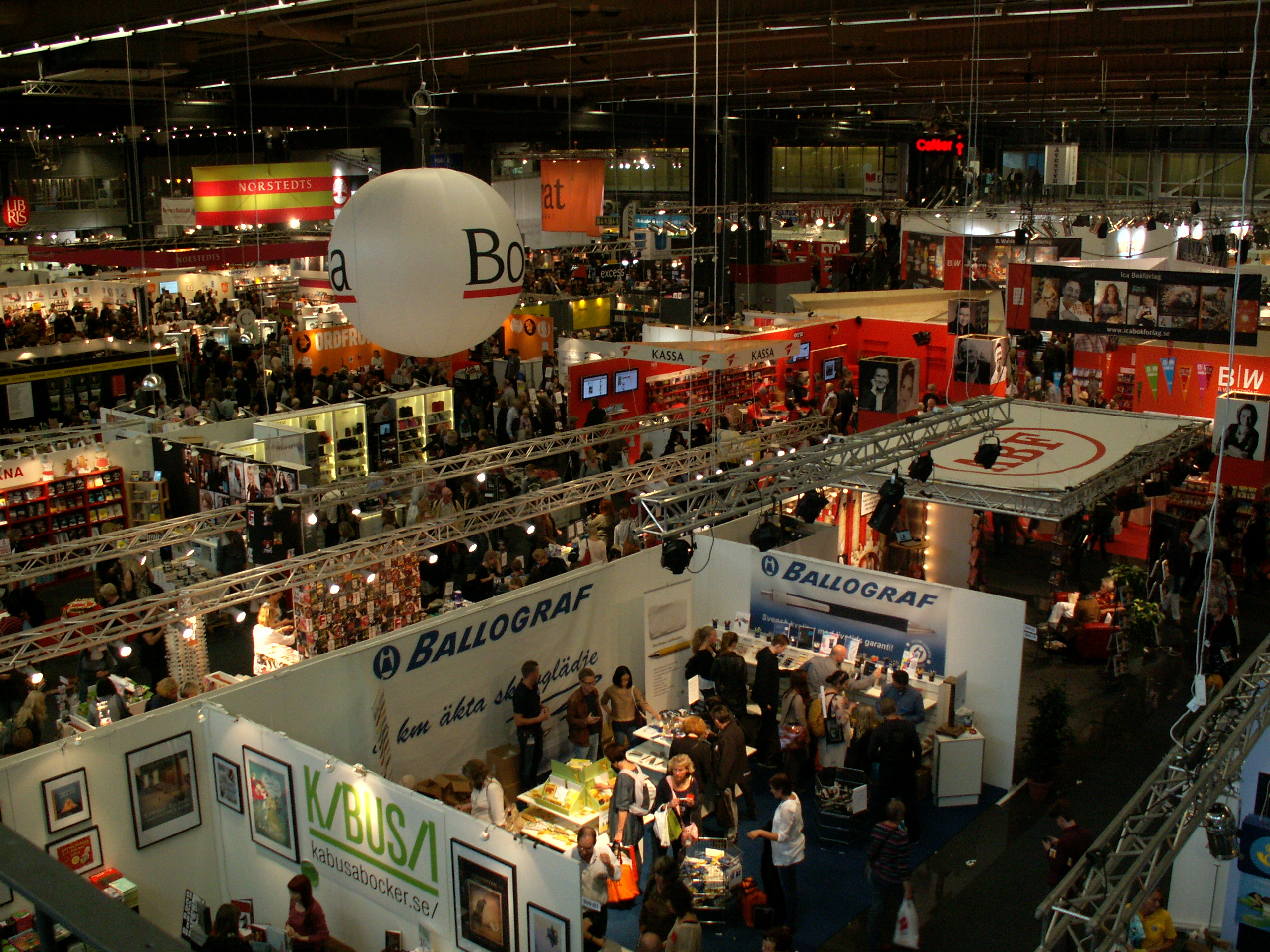 Göteborg Book Fair 2011 as seen from the second floor (Friday 23rd of September, at 17:34). A panoramic overview of parts of the exhibition area.